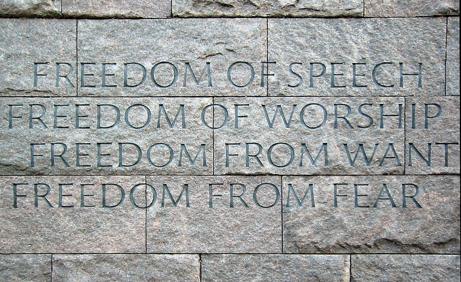 Photo of a wall with the "Four Freedoms" at the Franklin Delano Roosevelt Memorial, Washington DC. Uploaded by photographer.